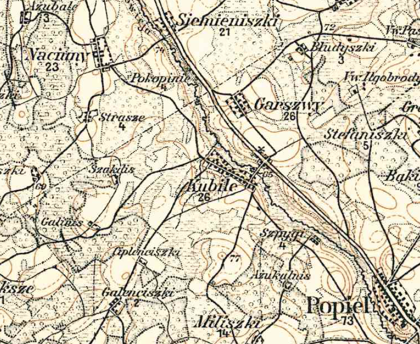 Kubiliai map from 1921 Karte des westlichen Russlands.